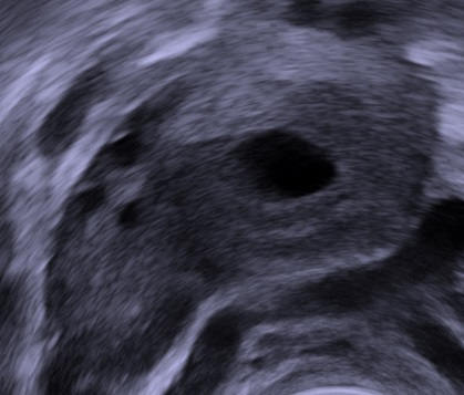 Vaginal ultrasound showing a 25 millimeter wide corpus luteum with a fluid-filled cavity in its middle (shown as dark in the image since it is anechoic). The rest of the ovary is seen at right, with 3 small follicles seen in the same plane. The woman was pregnant at 9 weeks of gestational age.